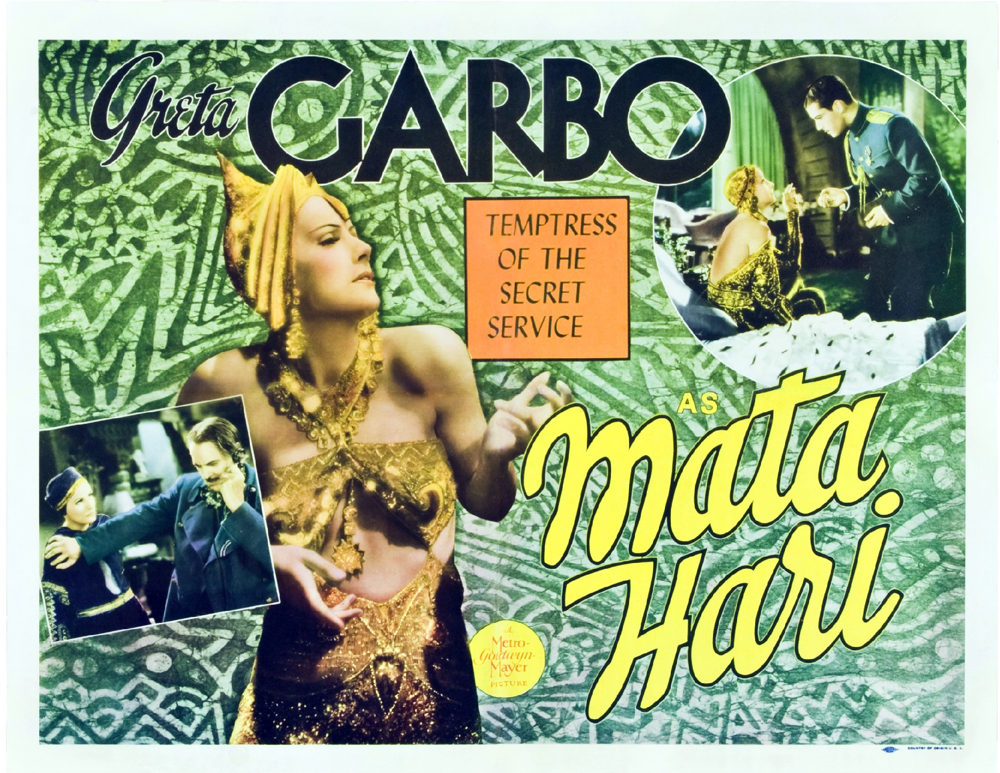 Poster for the film Mata Hari (1931).